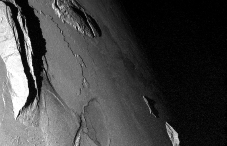 (from NASA's Jet Propulsion Laboratory) : "NASA's Galileo spacecraft captured this dramatic image of mountains on Io in February 2000. The image was taken when the Sun was low in the sky, illuminating the scene from the left, so it reveals topographic details of Io's surface. A low scarp, roughly 250 meters (820 feet) high, runs from the upper left toward the center of the image. Mongibello Mons, the jagged ridge at the left of the image, rises 7 kilometers (23,000 feet) above the plains of Io, higher than any mountain in North America. Few of Io's mountains (see alsoPIA02526) resemble volcanoes. Instead, Galileo scientists believe that the mountains are formed when blocks of Io's crust are uplifted along thrust faults. Angular mountains are thought to be younger, while older mountains have more subdued topography, such as the rise near the top center of this image. The image has a resolution of 335 meters (1,100 feet) per picture element. North is to the top of the image."